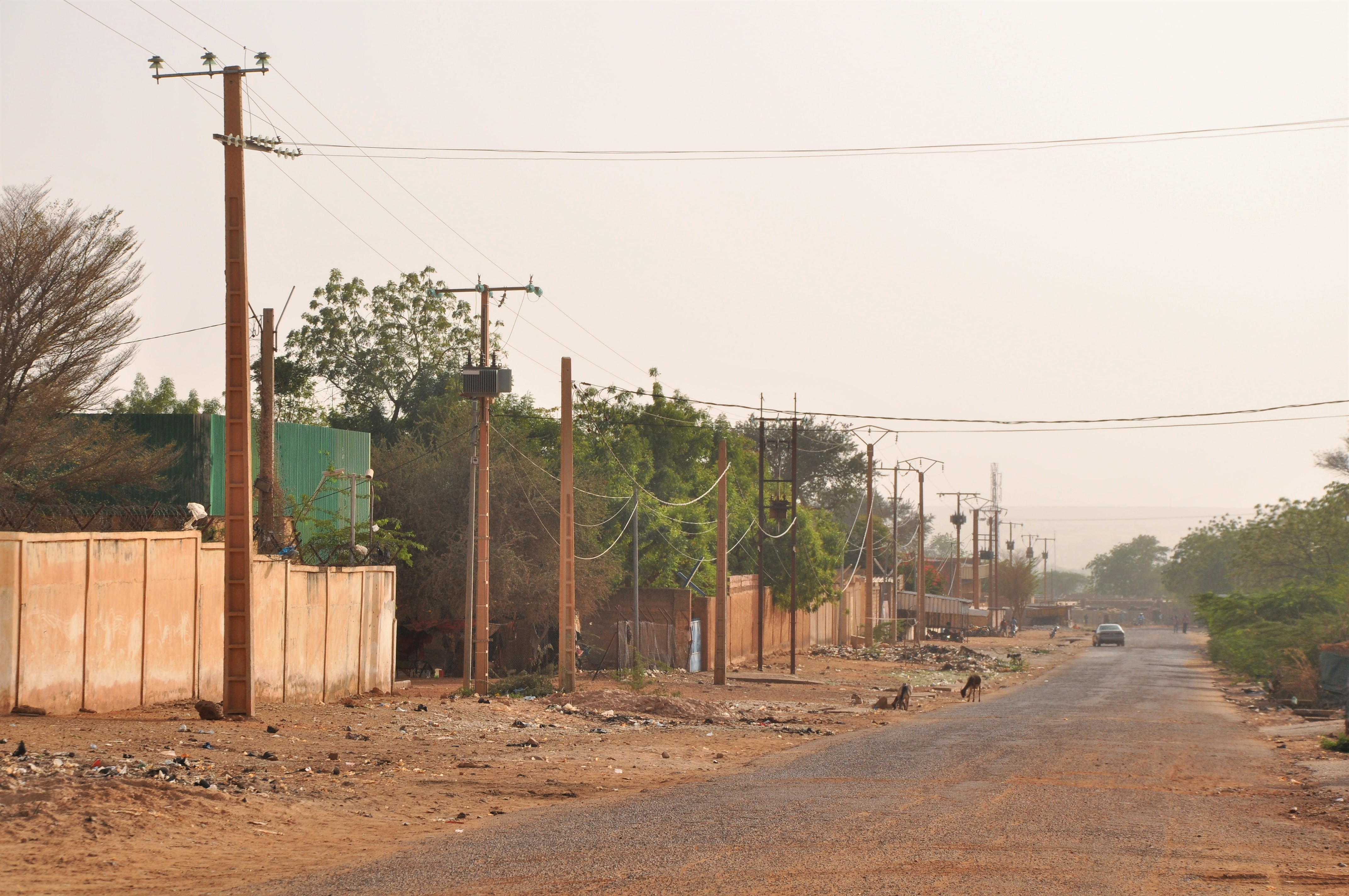 Avenue d'Arlit (Arlit Avenue), in the Industrial Zone in Niamey, Niger.